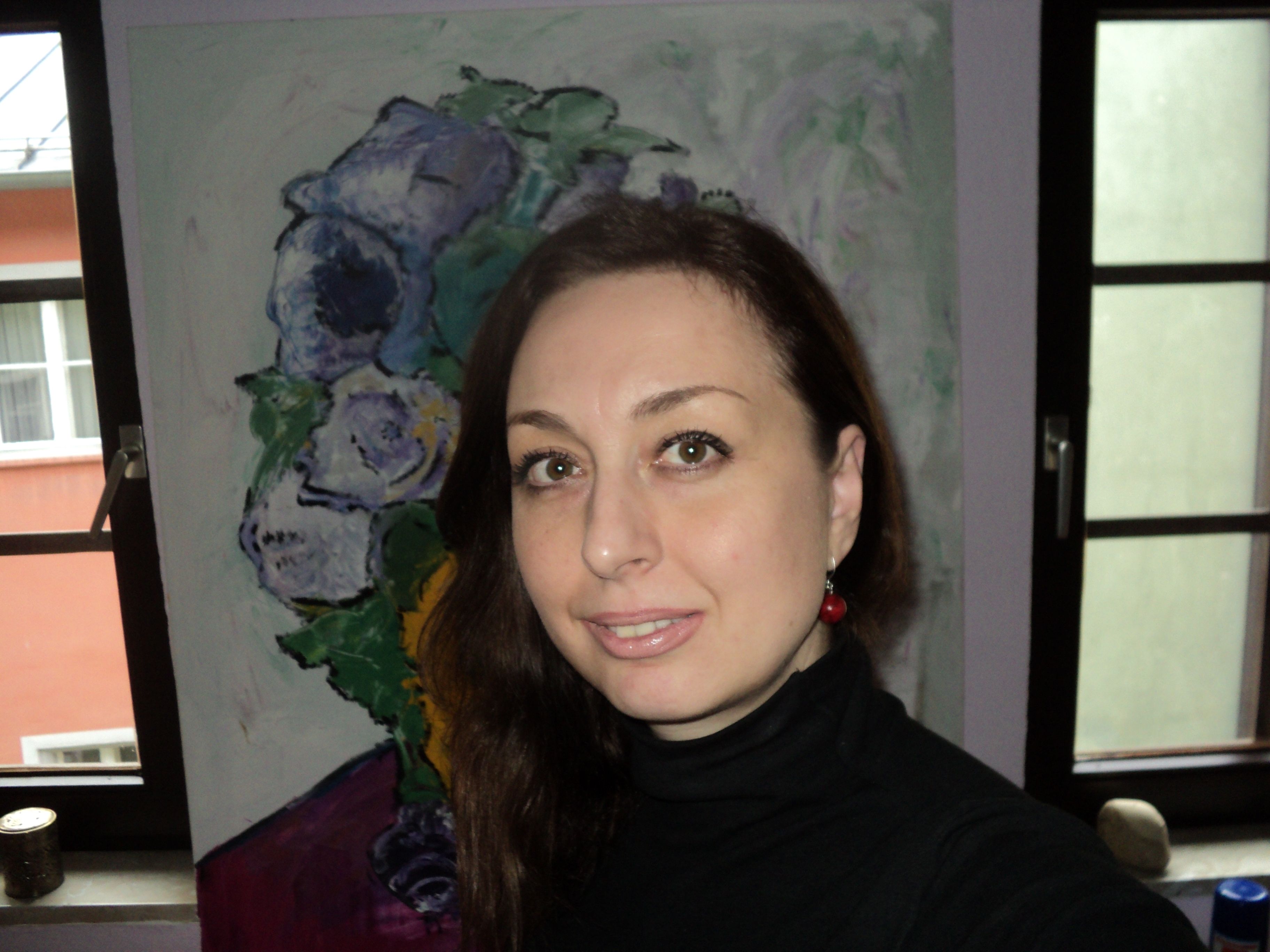 Fotografija. Jelena Bodrazic.2012